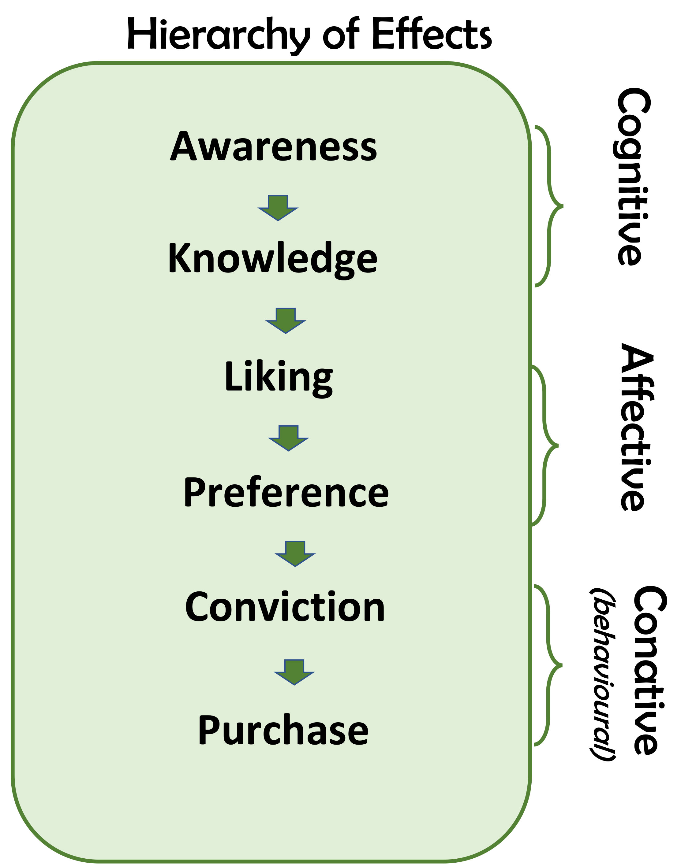 Generalised hierarchy of effects sequence (as used in advertising and promotion). The literature has loads of these models - this is a compilation and generalisation of those.